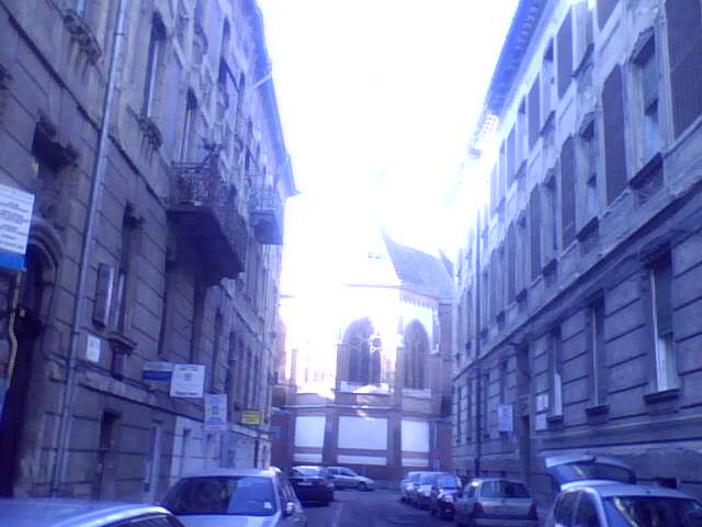 House, Evangelical parish, built about 1900 (left); Suciu Palace, built 1906–1907 (right), Arad, Romania